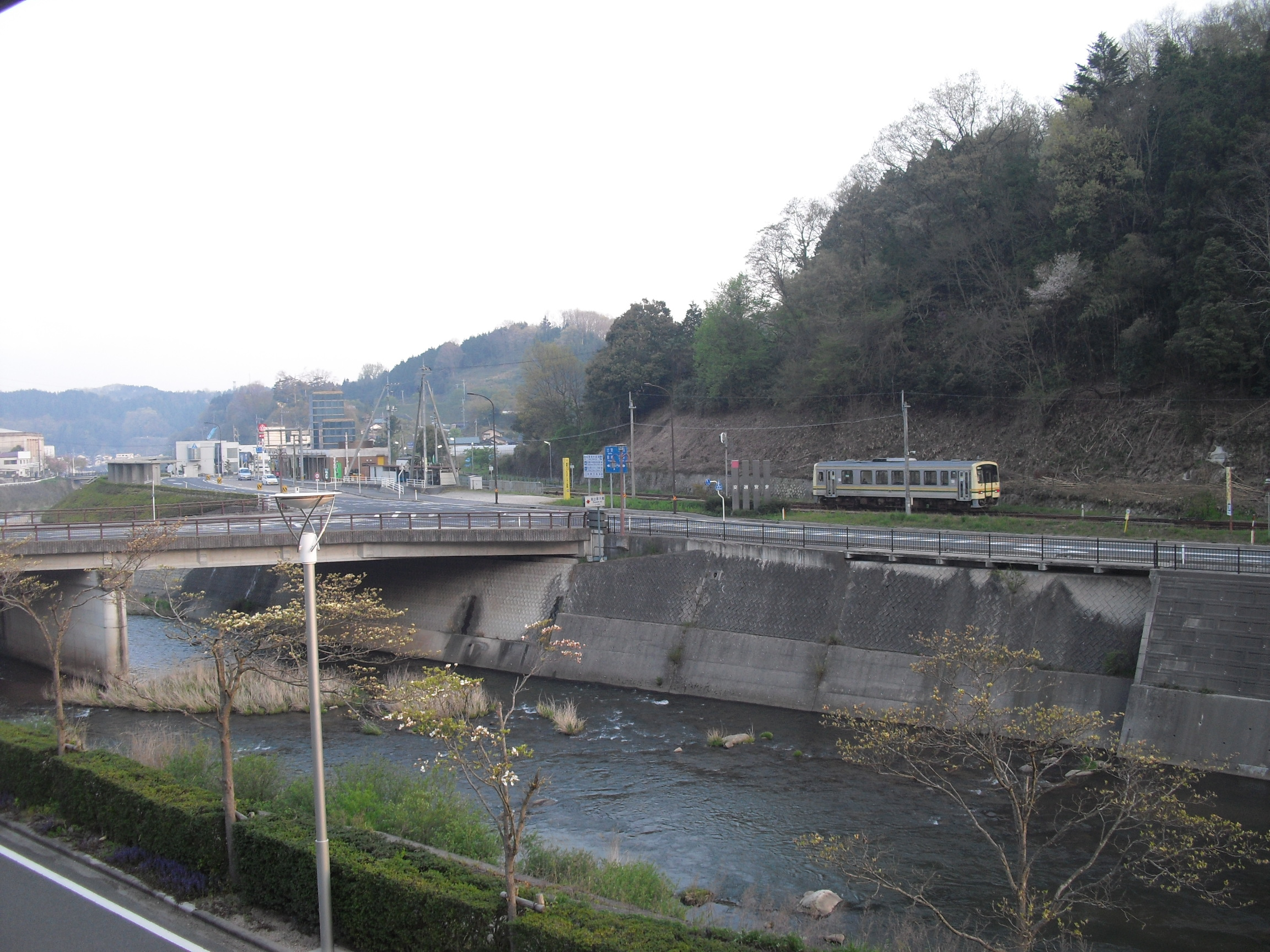 Hiikawa river